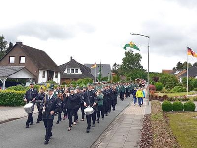 Todtglüsinger Schützenumzug 2018